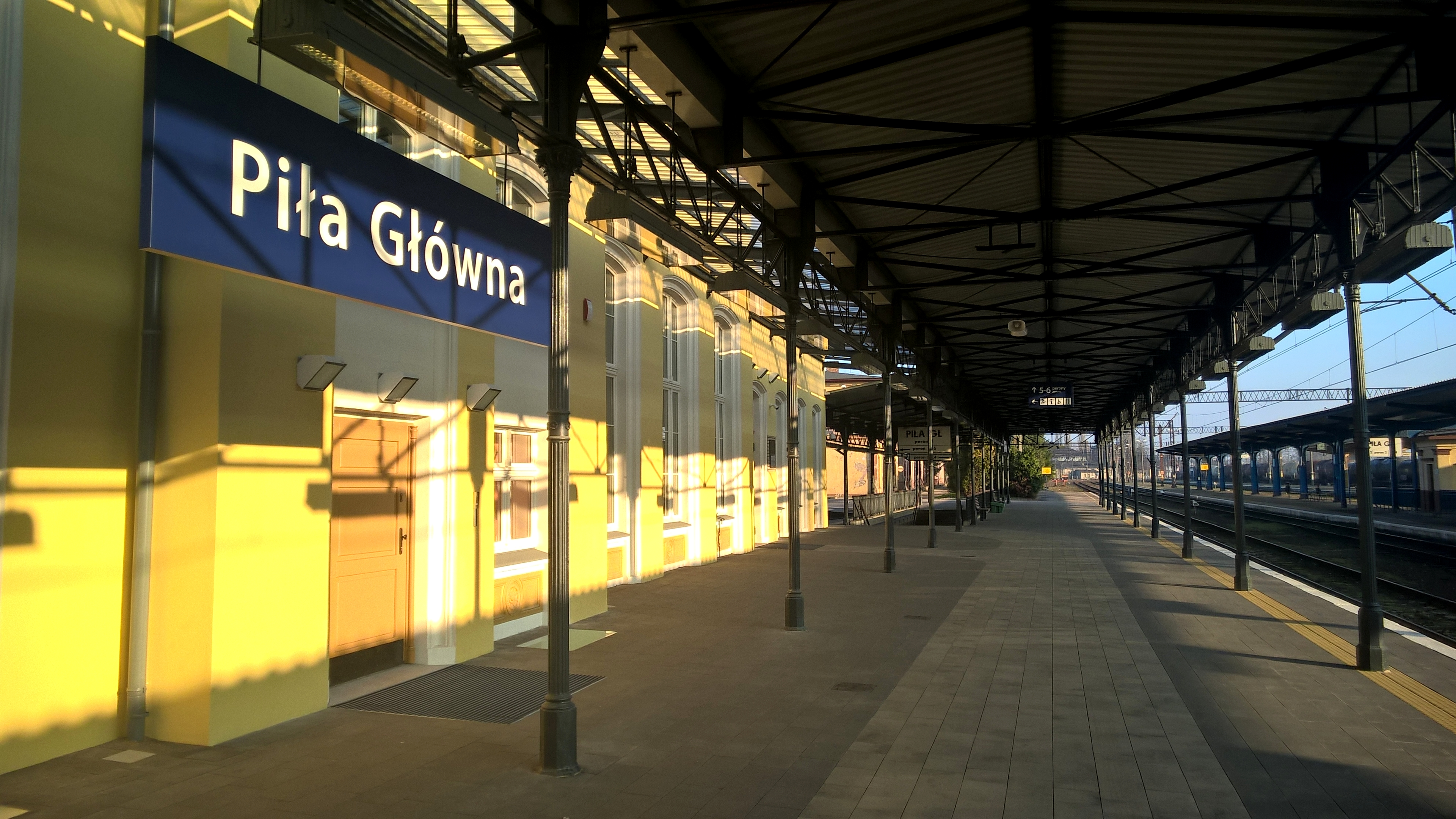 Platform 1